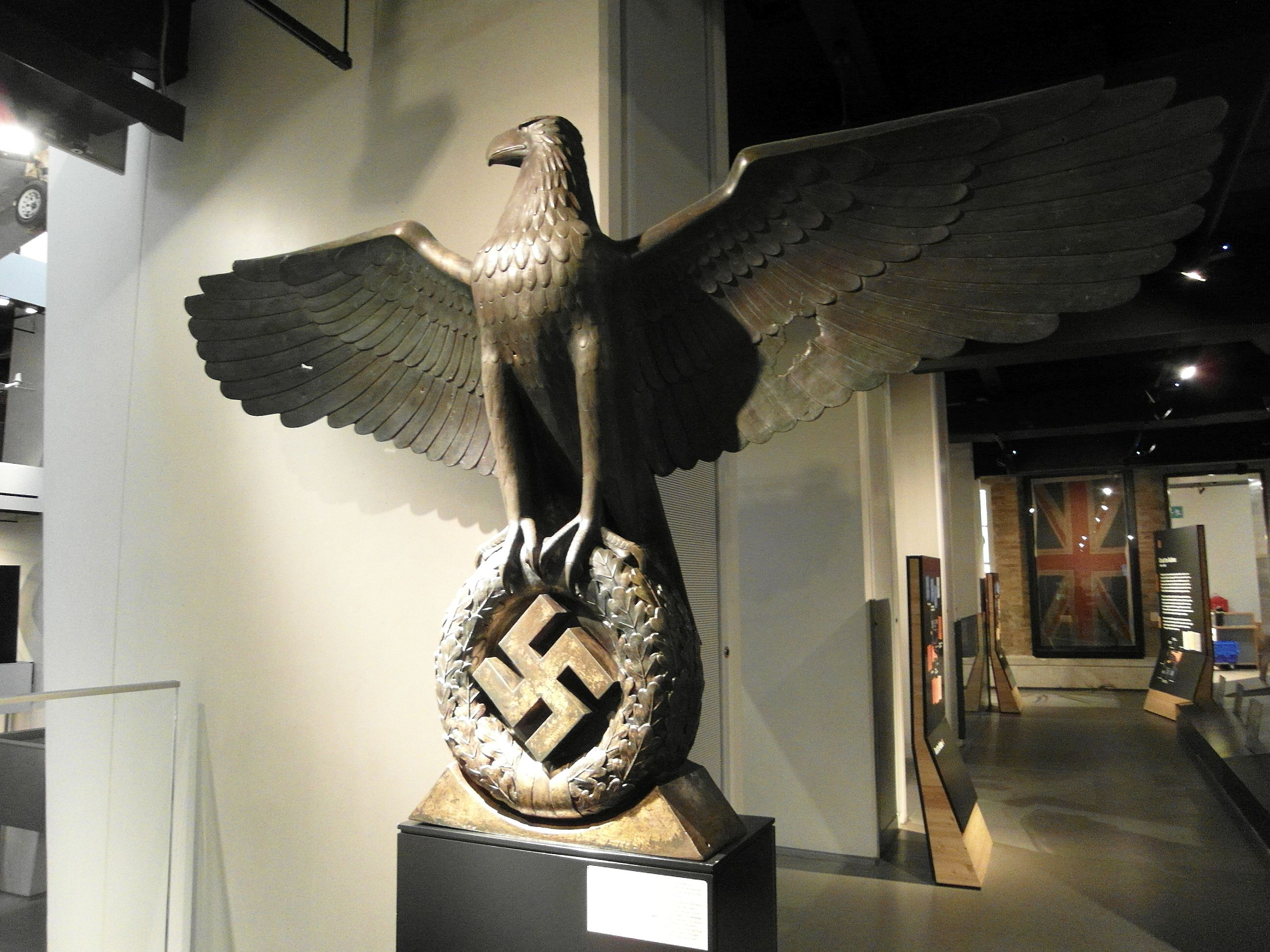 Bronze eagle from the German Reichs Chancellery, at the Imperial War Museum London. (Jan 2016)